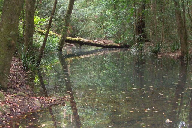 Waterhousea floribunda at Carawirry_Creek, near Dungog, NSW